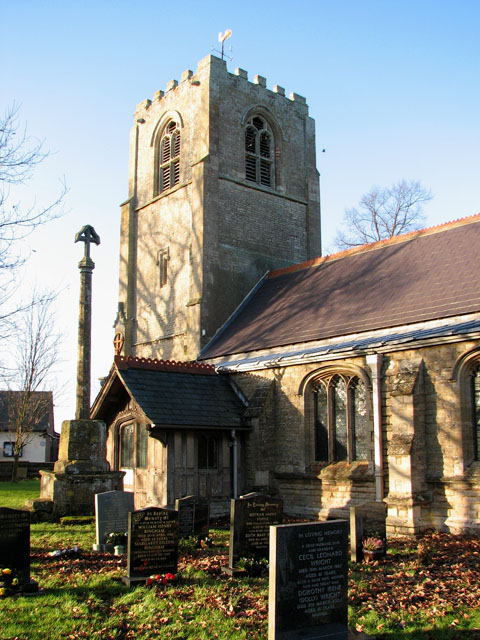 West tower of Holy Trinity parish church, Gedney Hill, Lincolnshire seen from the southeast. On the left is a 15th-century churchyard cross, restored about 1918.